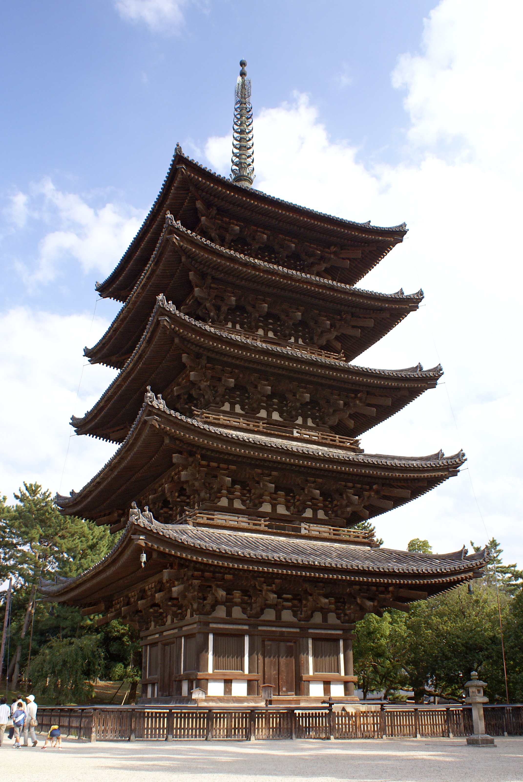 Five-storied pagoda of Kofukuji (Japan's national treasure), Nara, Nara prefecture, Japan